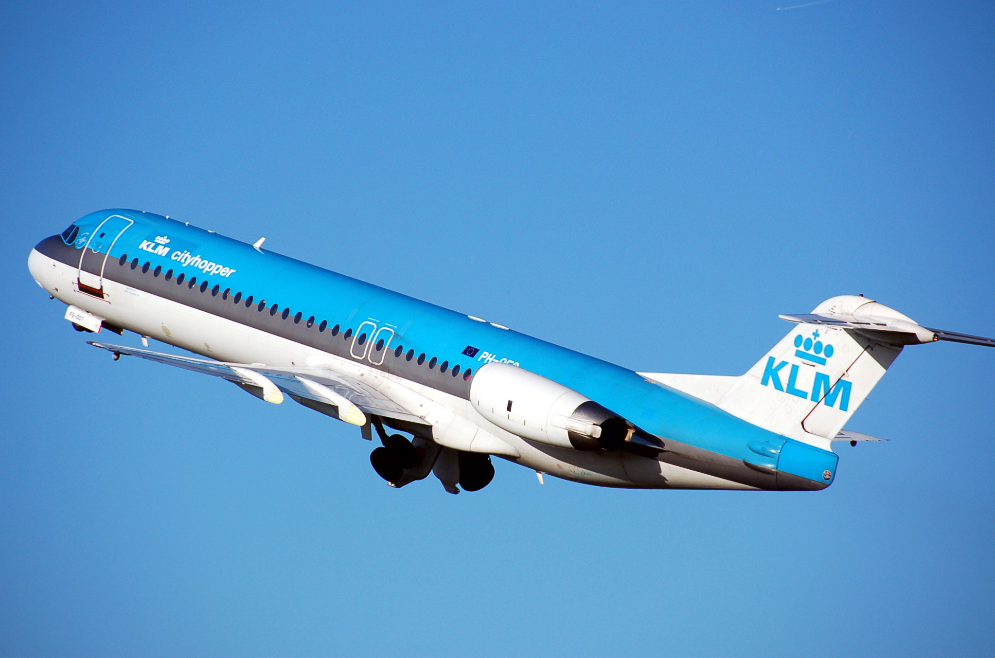 KLM Cityhopper Fokker F100 (registration PH-OFG) takes off from Bristol International Airport, Bristol, England. Photographed by Adrian Pingstone in December 2006 and released to the public domain.